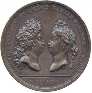 Medal of Louis, Dauphin of France and Marie Anne Victoire in 1680 from the series Médailles de Louis le Grand